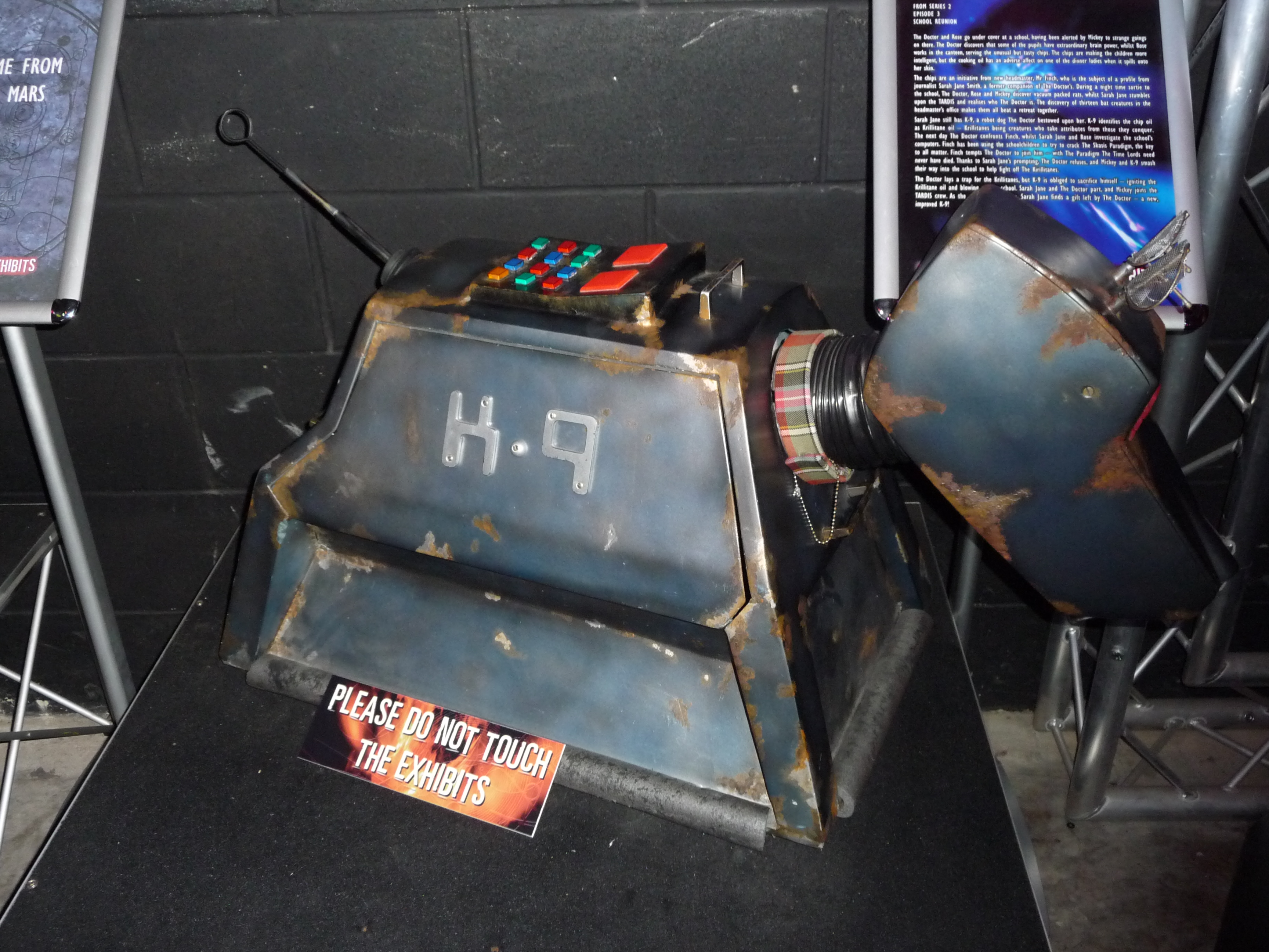 K9 at the Dr Who exhibition in Cardiff 2010